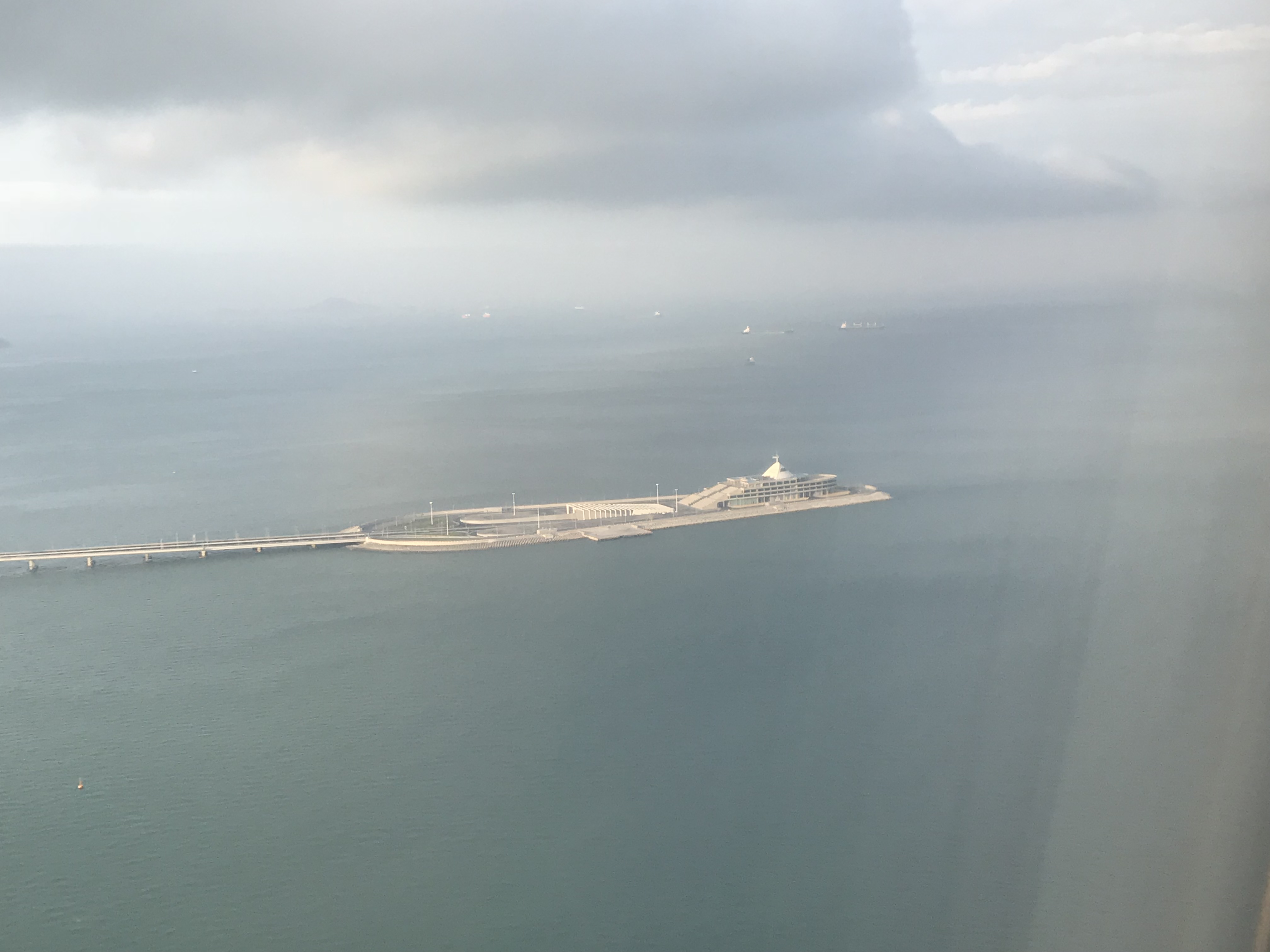 201805 Artificial Island of HKZMBridge